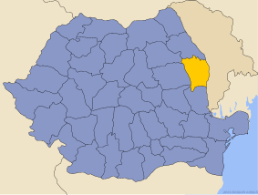 Location of Vaslui County in Romania.